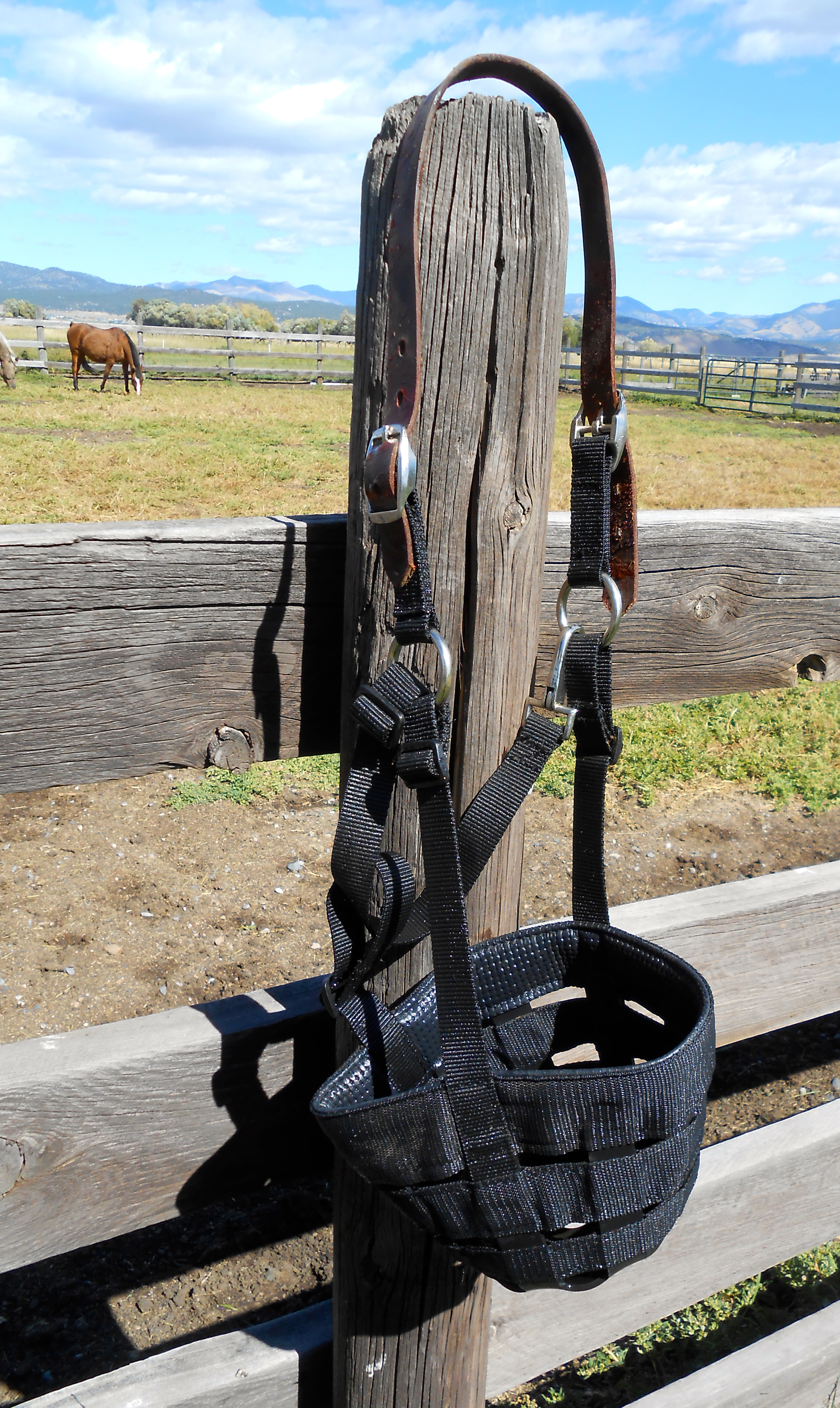 A grazing muzzle, prevents horses from overeating when on pasture. It has a small hole in the bottom that allows a small amount of grass to be consumed, thus meeting the horse's need to graze, and it also allows water to be consumed. It has a breakaway crownpiece on the headstall so that a horse is not trapped if the muzzle catches on an object.